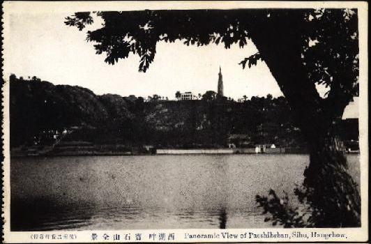 Postcard of West Lake